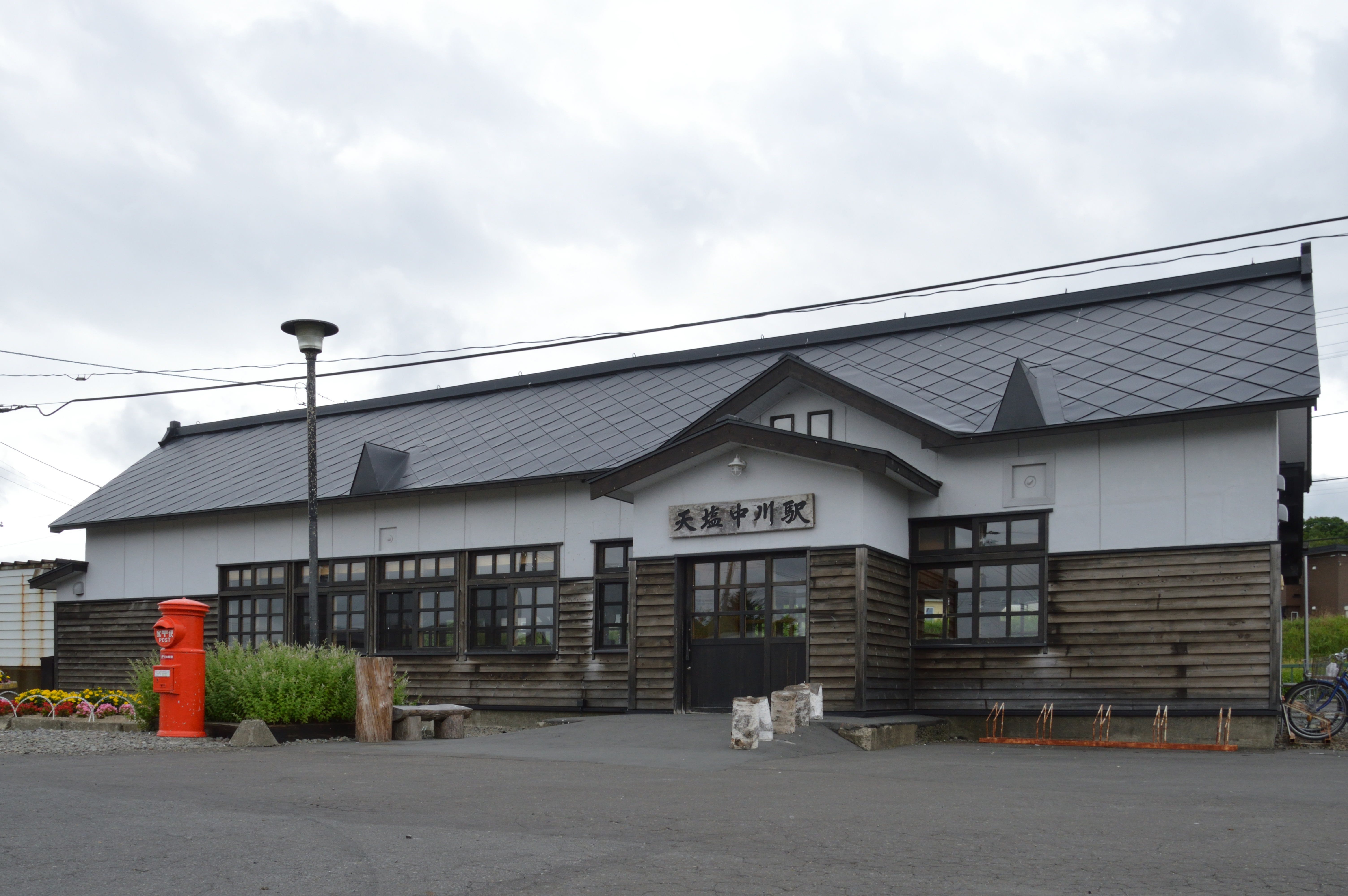 Teshio-Nakagawa Station on the Soya Line in Nakagawa, Hokkaido, Japan